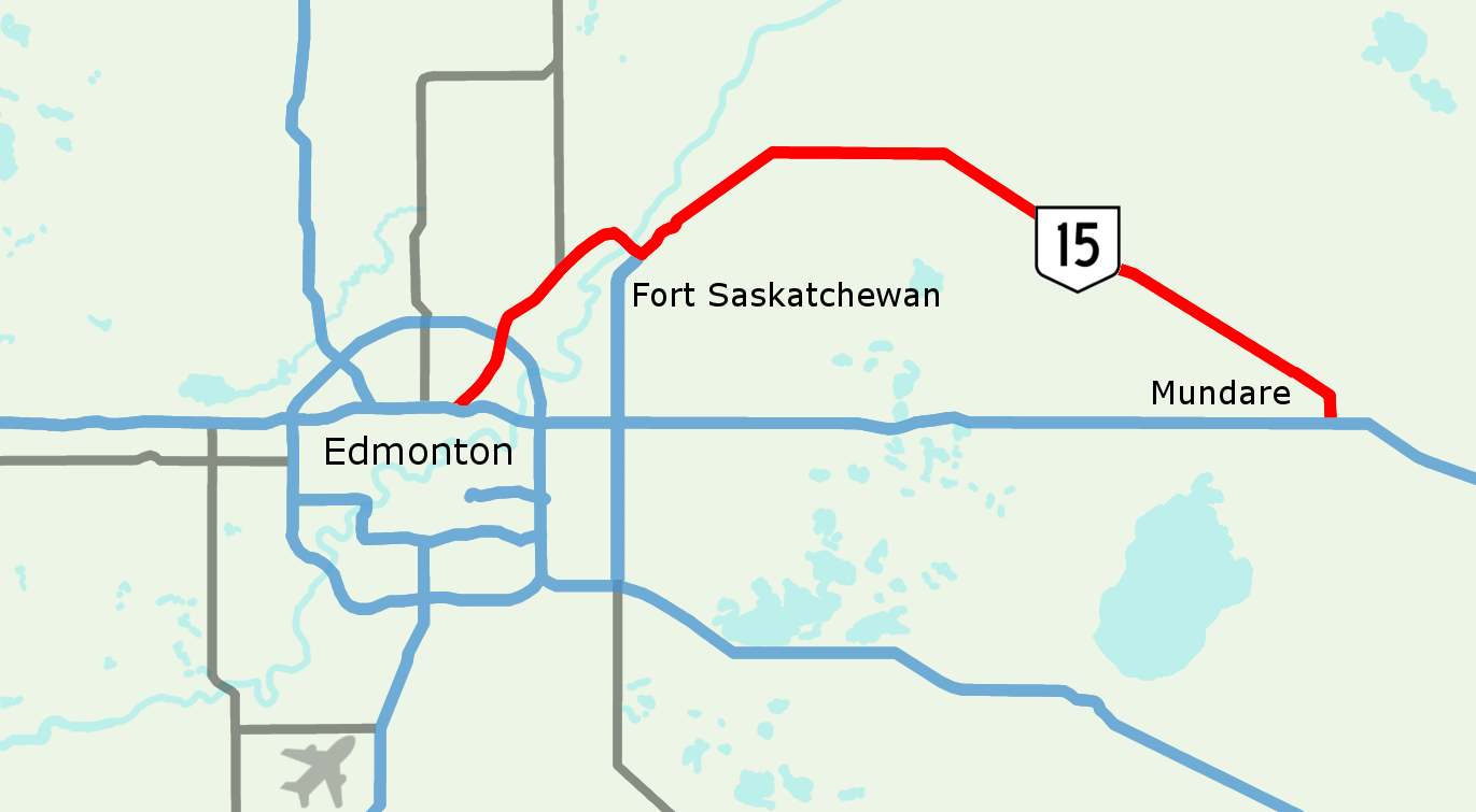 Alberta Highway 15 - created with OpenStreetMap